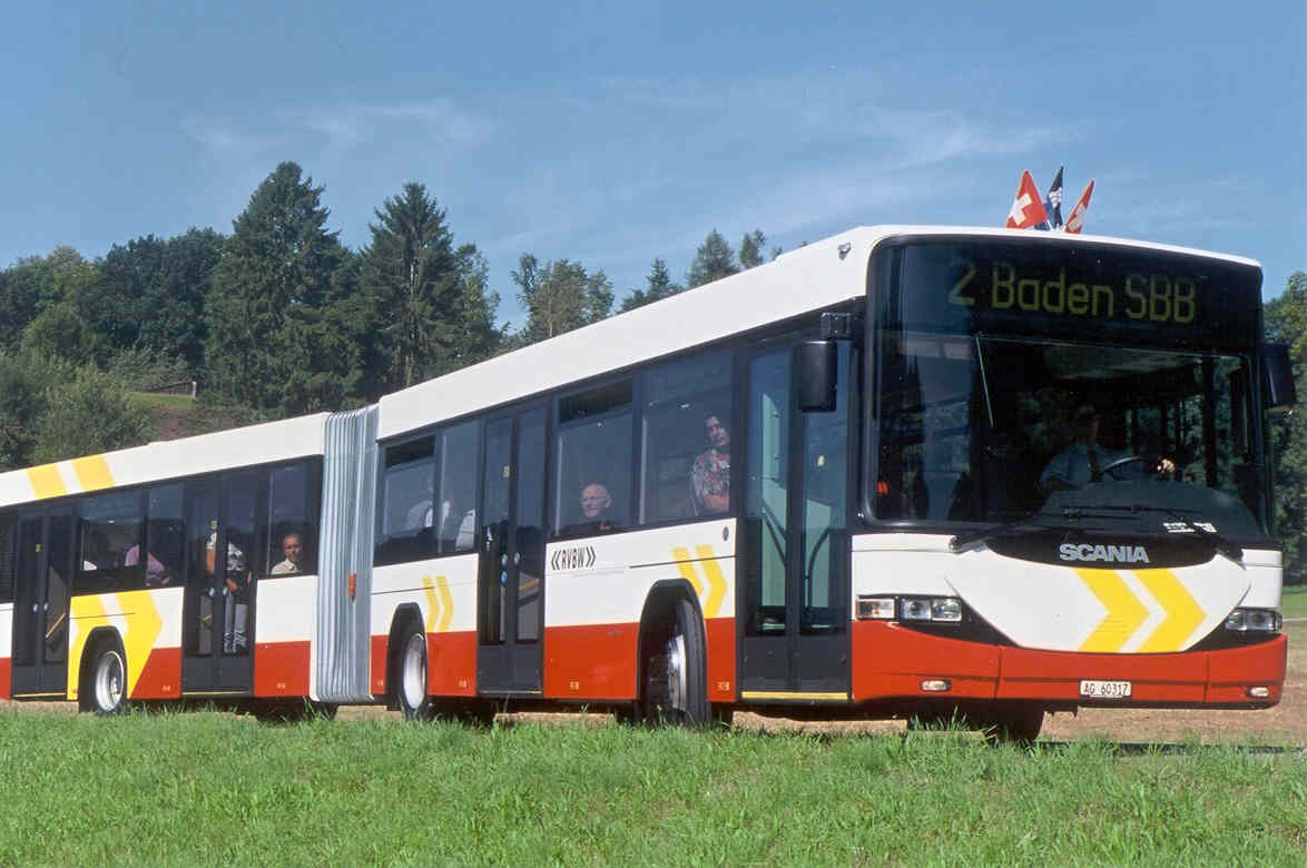 Hybrid Bi- Articulated Bus